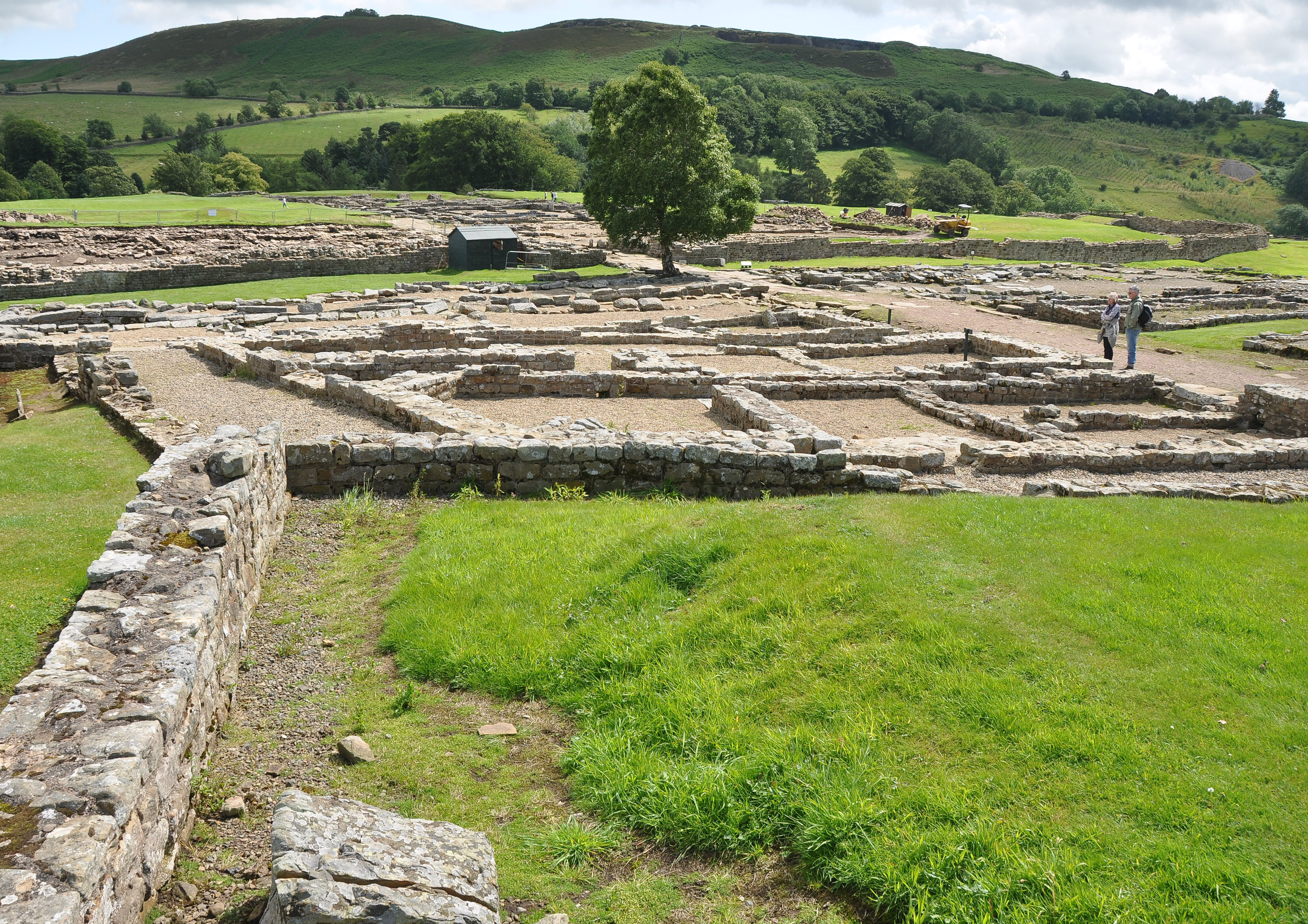 View over the ruins at Vindolanda, Northumberland.